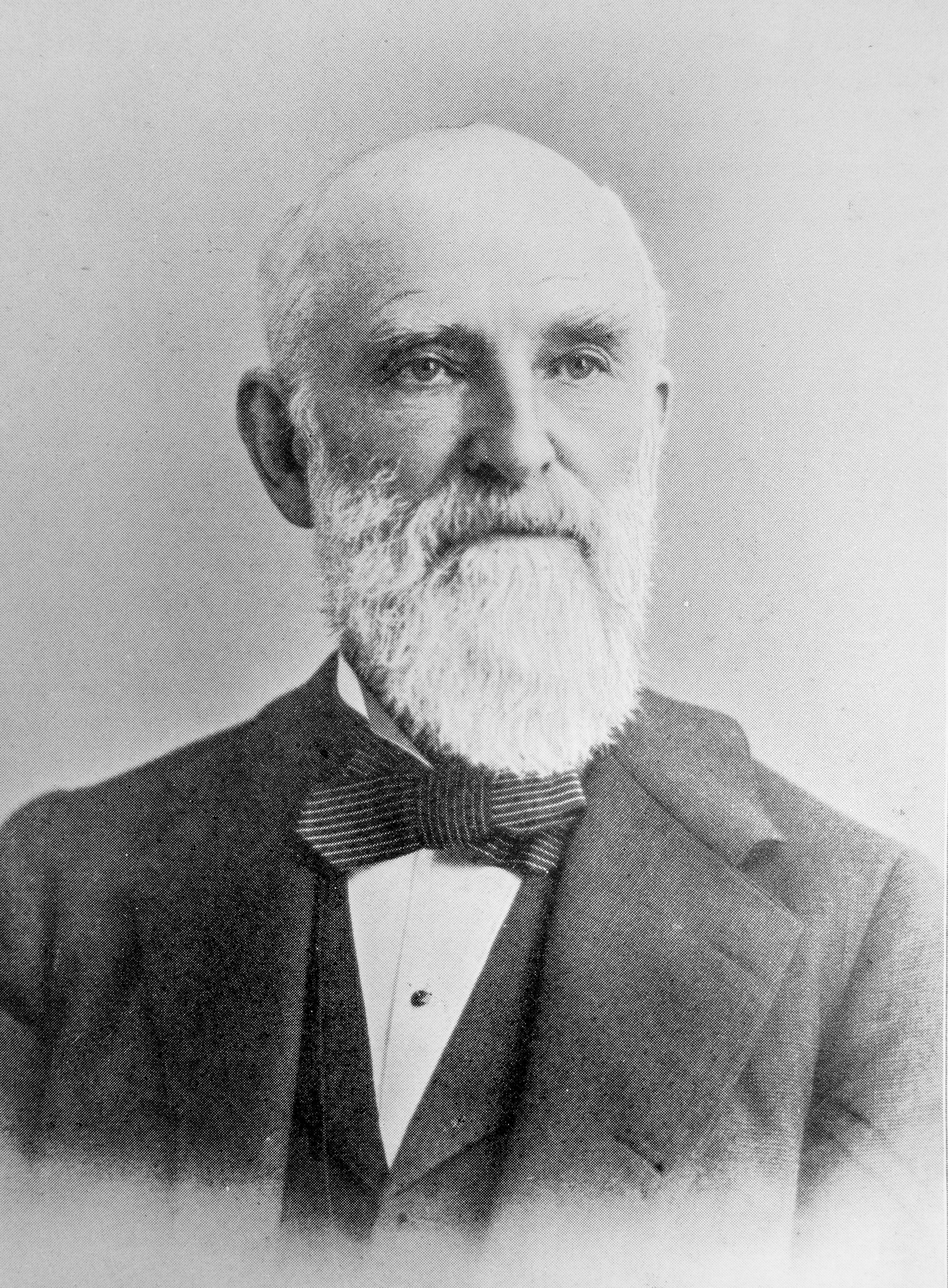 Henry A. Stearns, Lt. Gov of Rhode Island 1891–1892. Source: An Illustrated History of Pawtucket, Central Falls, and Vicinity by Robert Grieve (1897).